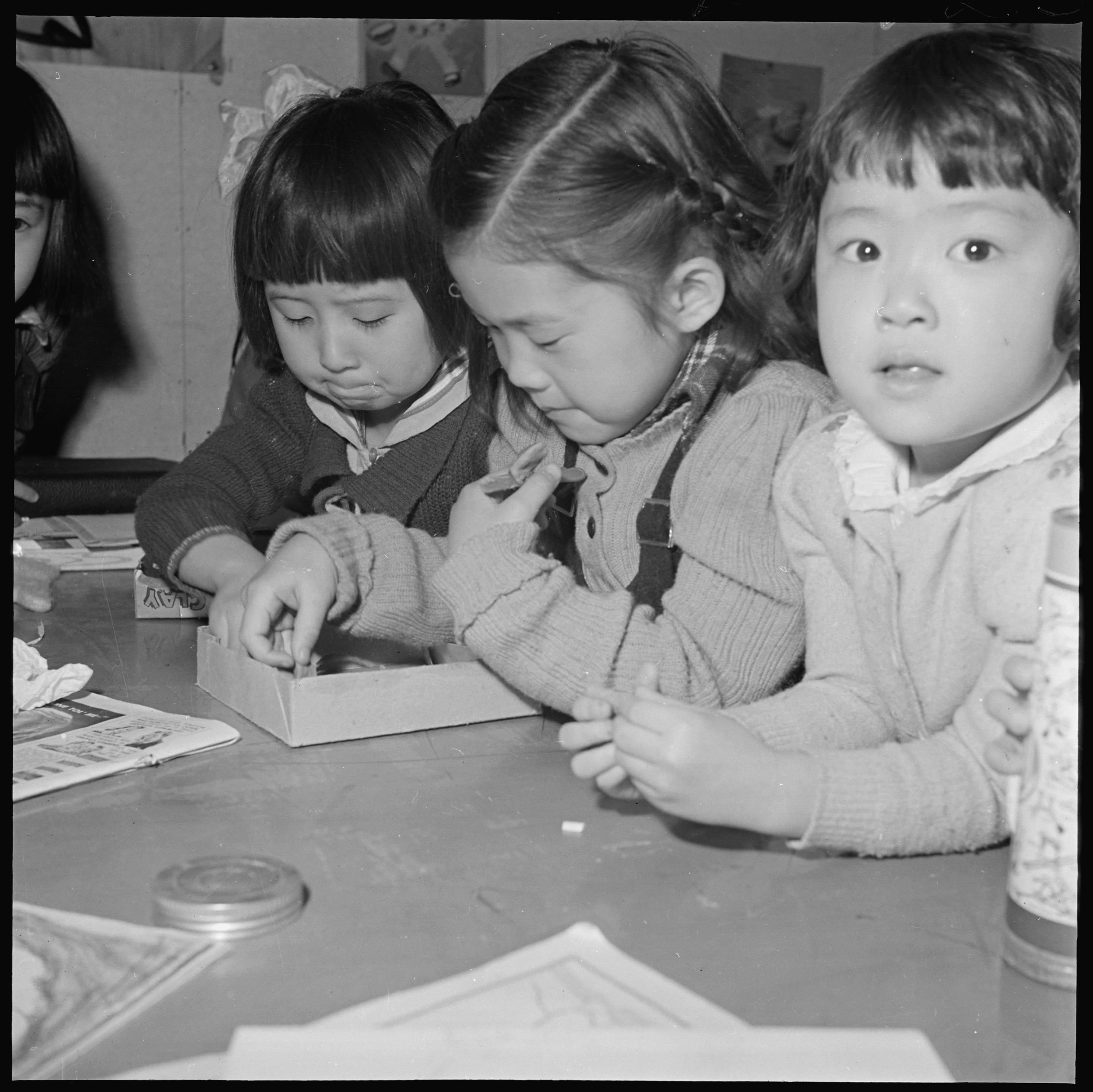 Scope and content: The full caption for this photograph reads: Heart Mountain Relocation Center, Heart Mountain, Wyoming. Two small girls, whose grandparents came to the United States from Japan, play with clay toys in the nursery school at the Heart Mountain Relocation Center.